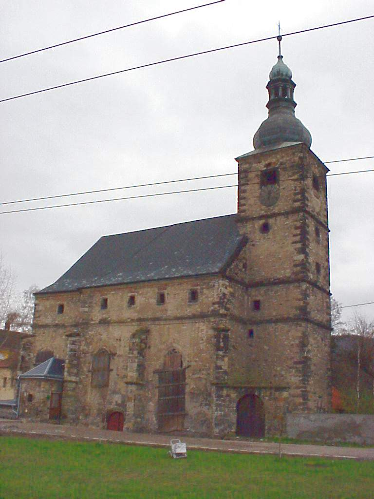 St Florian church (1597-1603) in Krásné Březno (a part of Ústí nad Labem city), Czech Republic